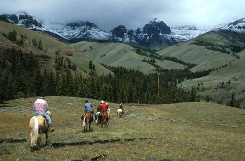 Horseback riding in Shoshone National Forest, Wyoming